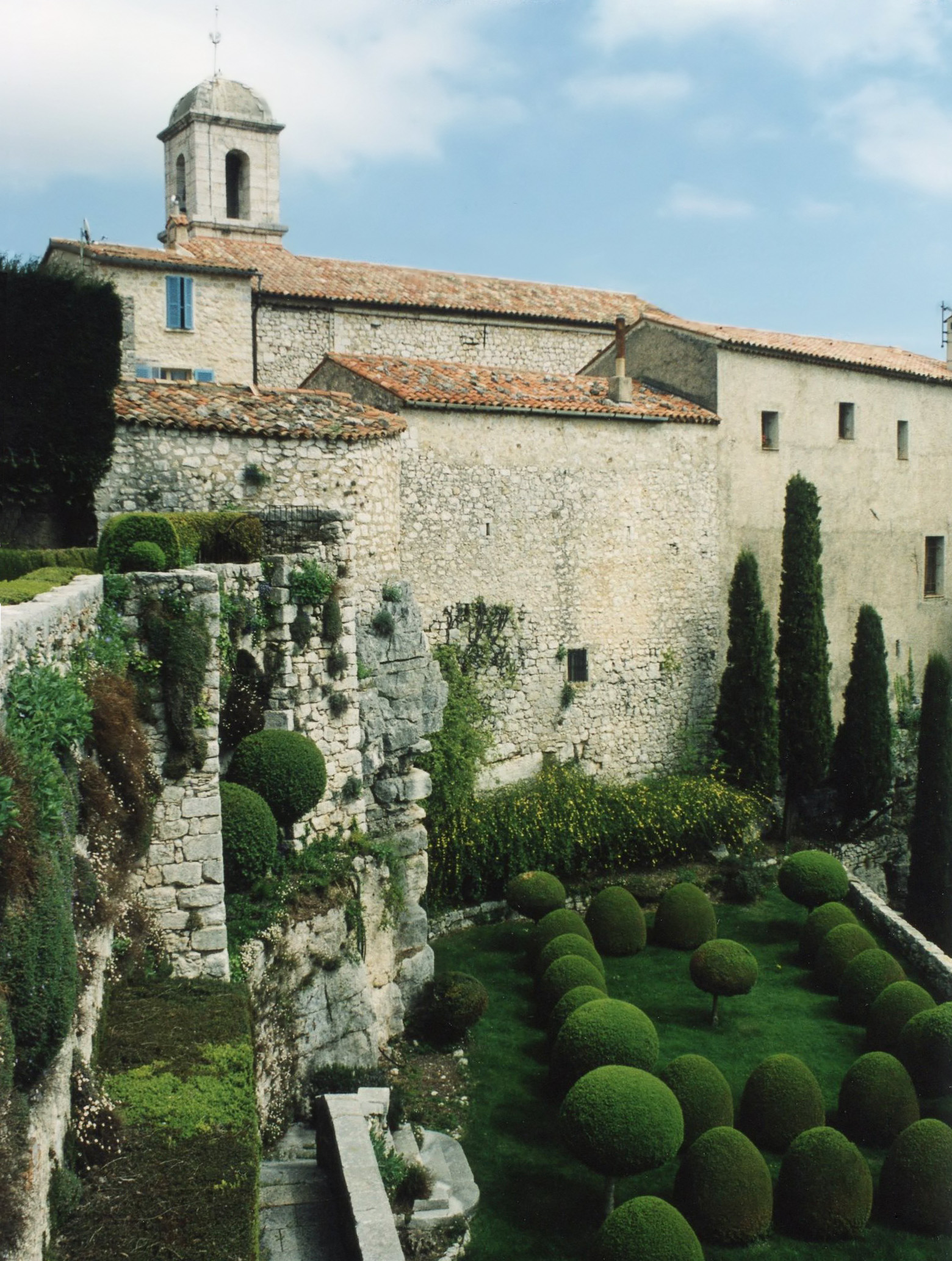 Topiary gardens at Gourdon Castle, Gourdon, Alpes-Maritimes département, France